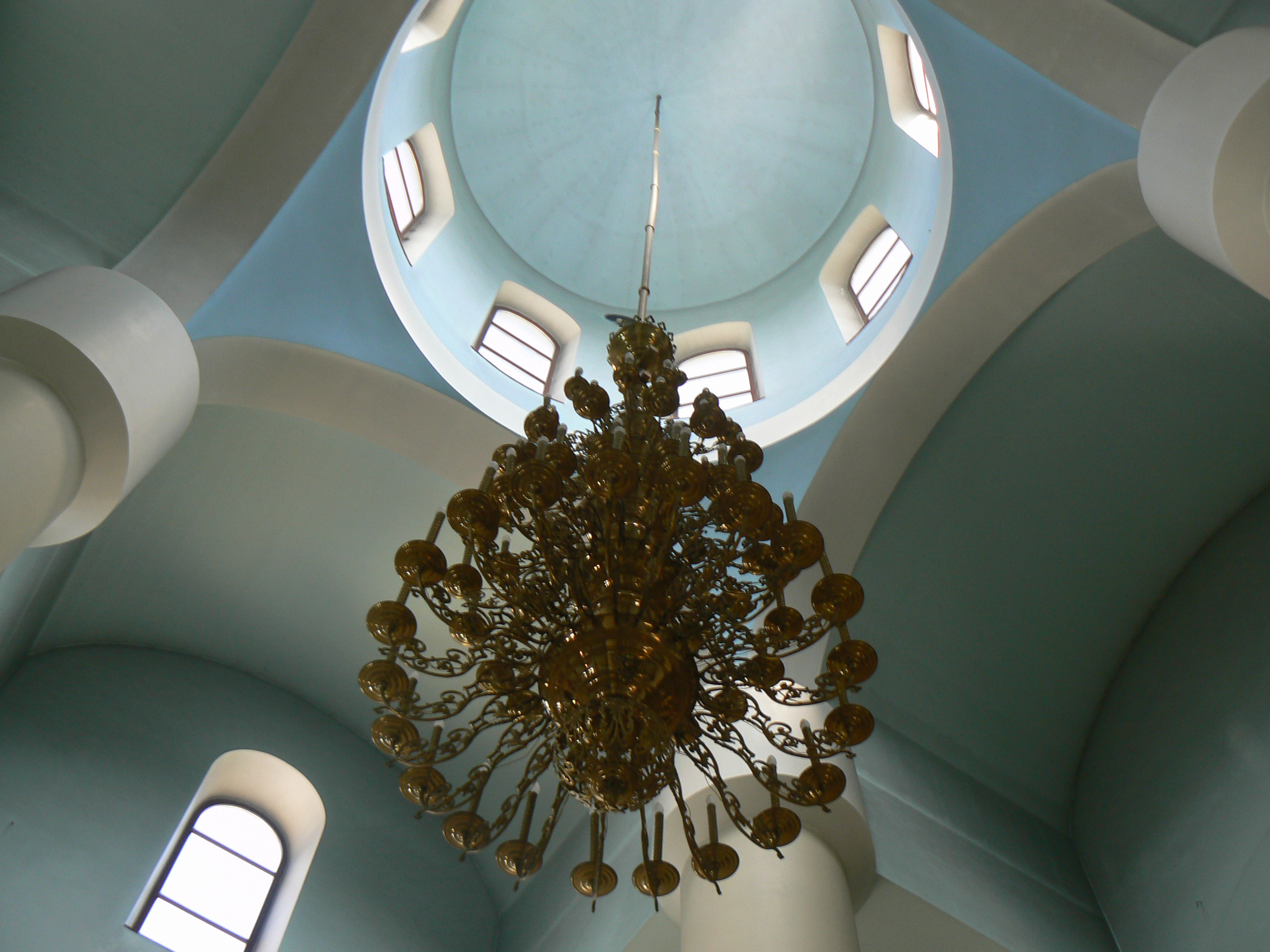 Orthodox church Pokrovo-Micolaus in Klaipėda Smiltelės g. 14a